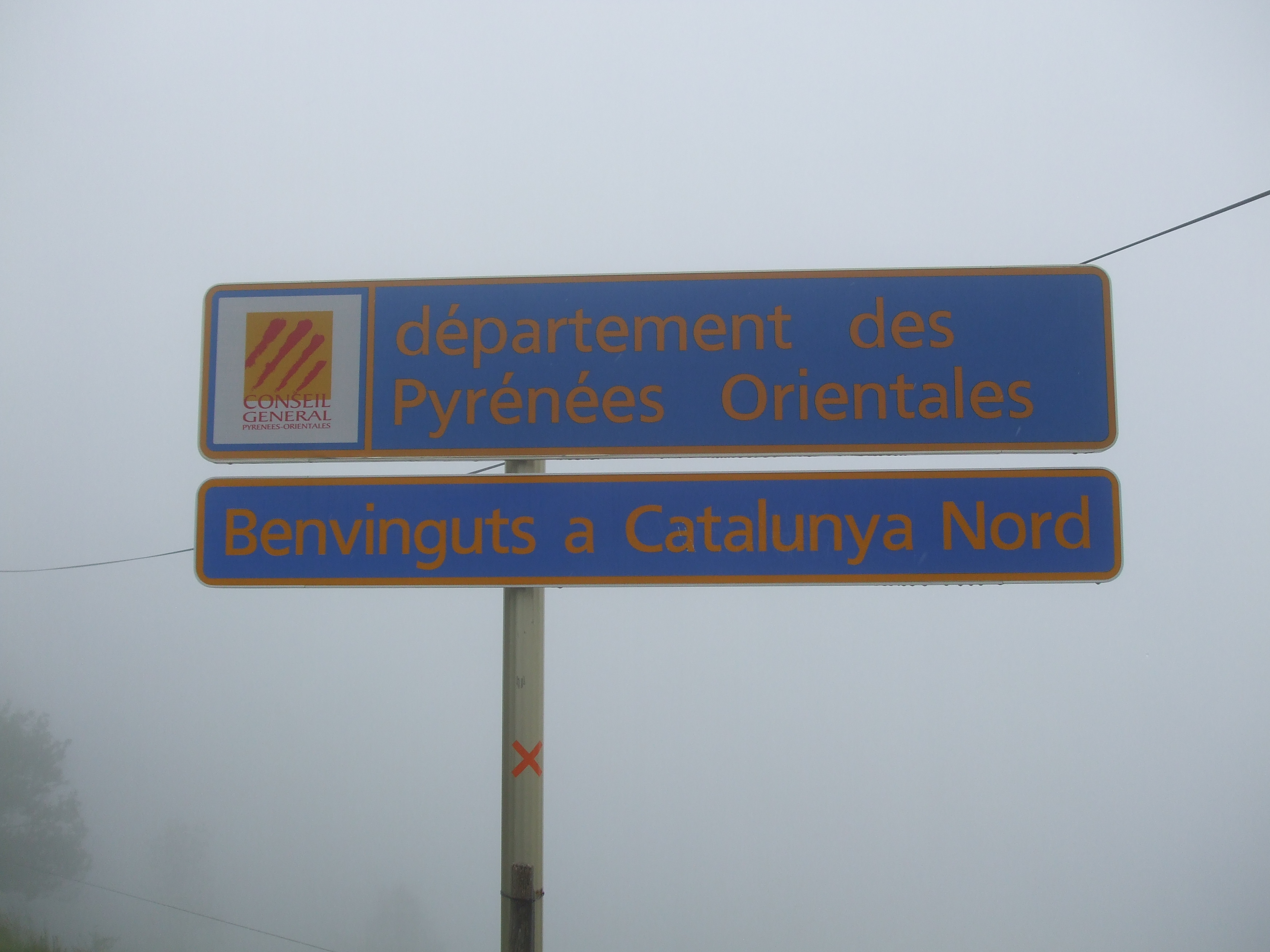 Bilingual road sign on the Coll d'Ares in Catalunya between the comarca Ripollès and the Vallespir. Since the Treaty of the Pyrenees (1659) the state frontier between France and Spain crosses this mountain pass in the Catalan Pyrenees.